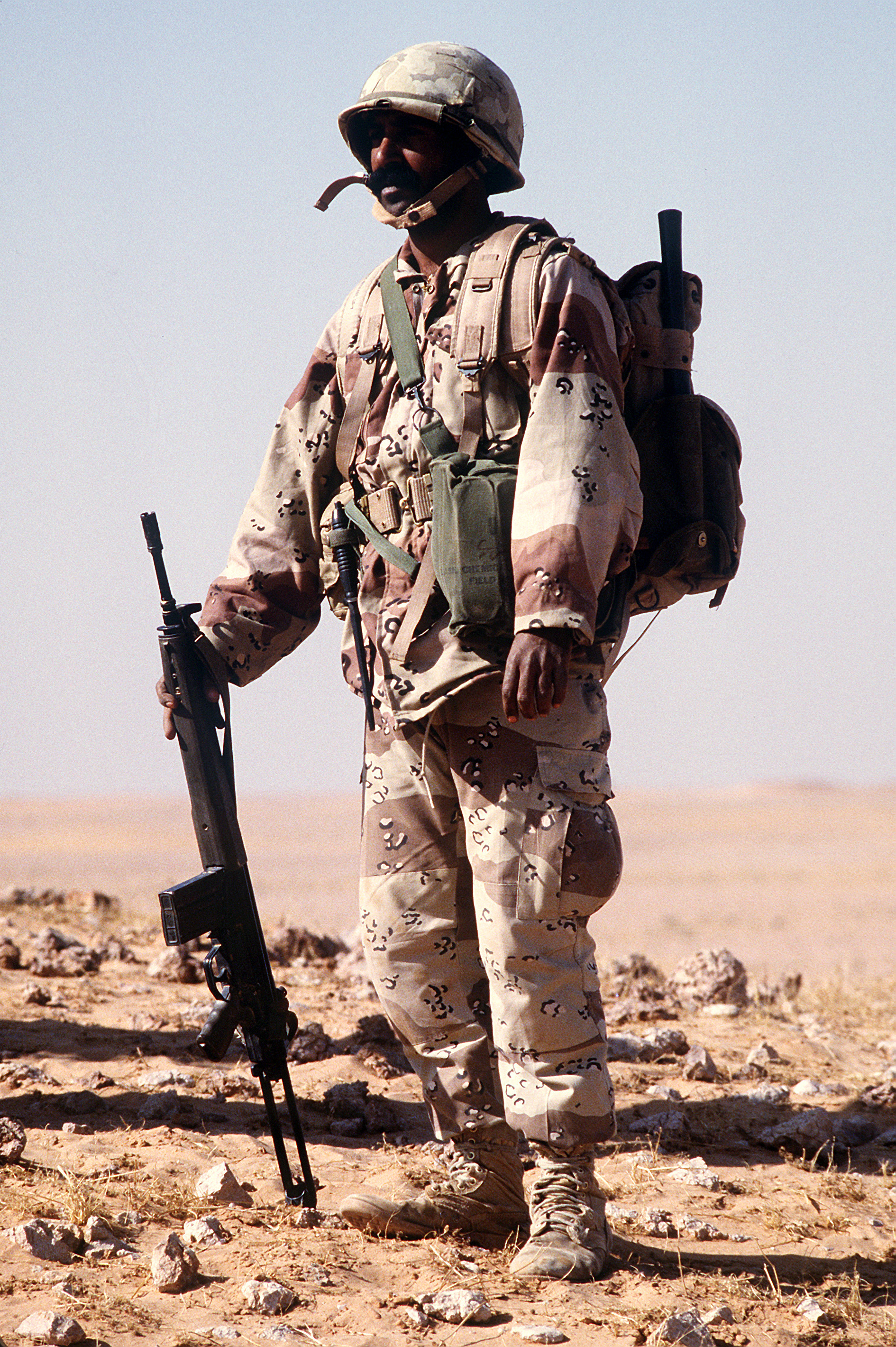 A Saudi Arabian soldier armed with a German 5.56mm Heckler & Koch HK 33B rifle takes part in a live-fire exercise during Operation Desert Shield.